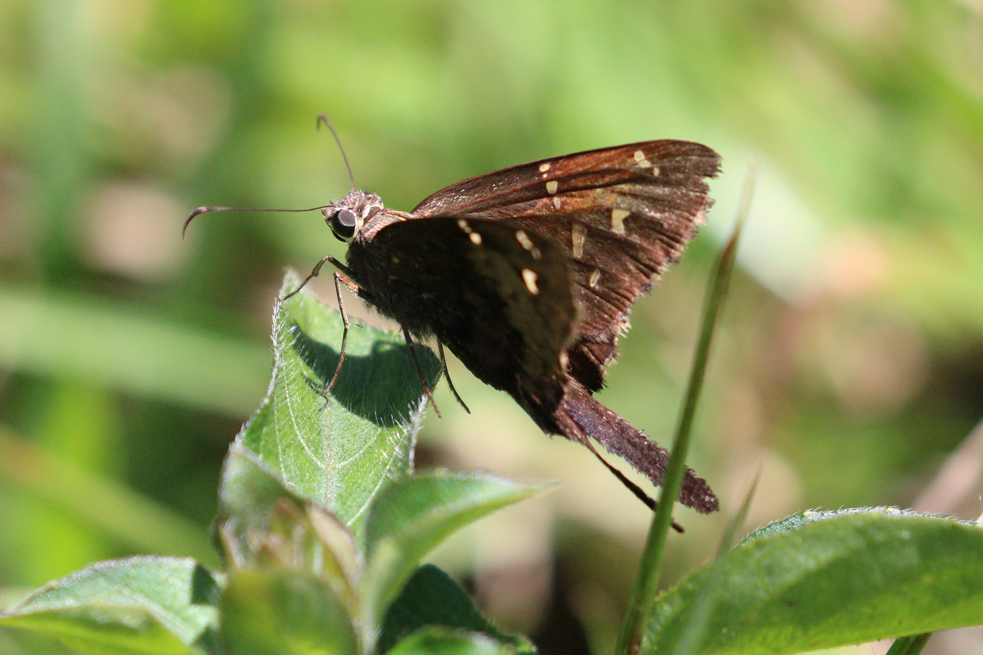 Cuban longtail (Urbanus dorantes santiago), Cuba